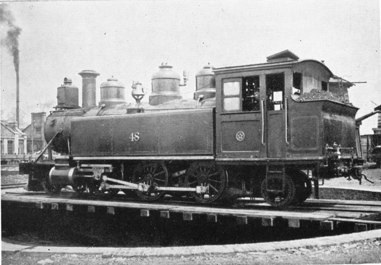 Japan Government Railway type 3060 steam locomotive